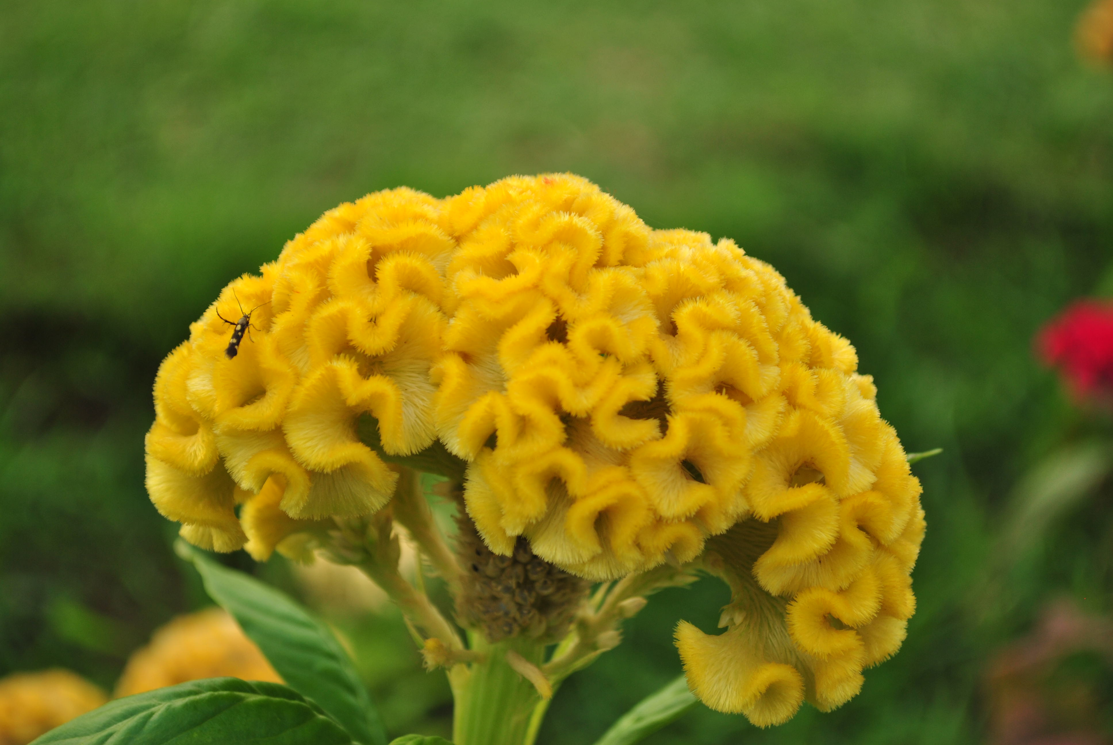 A Celosia cristata